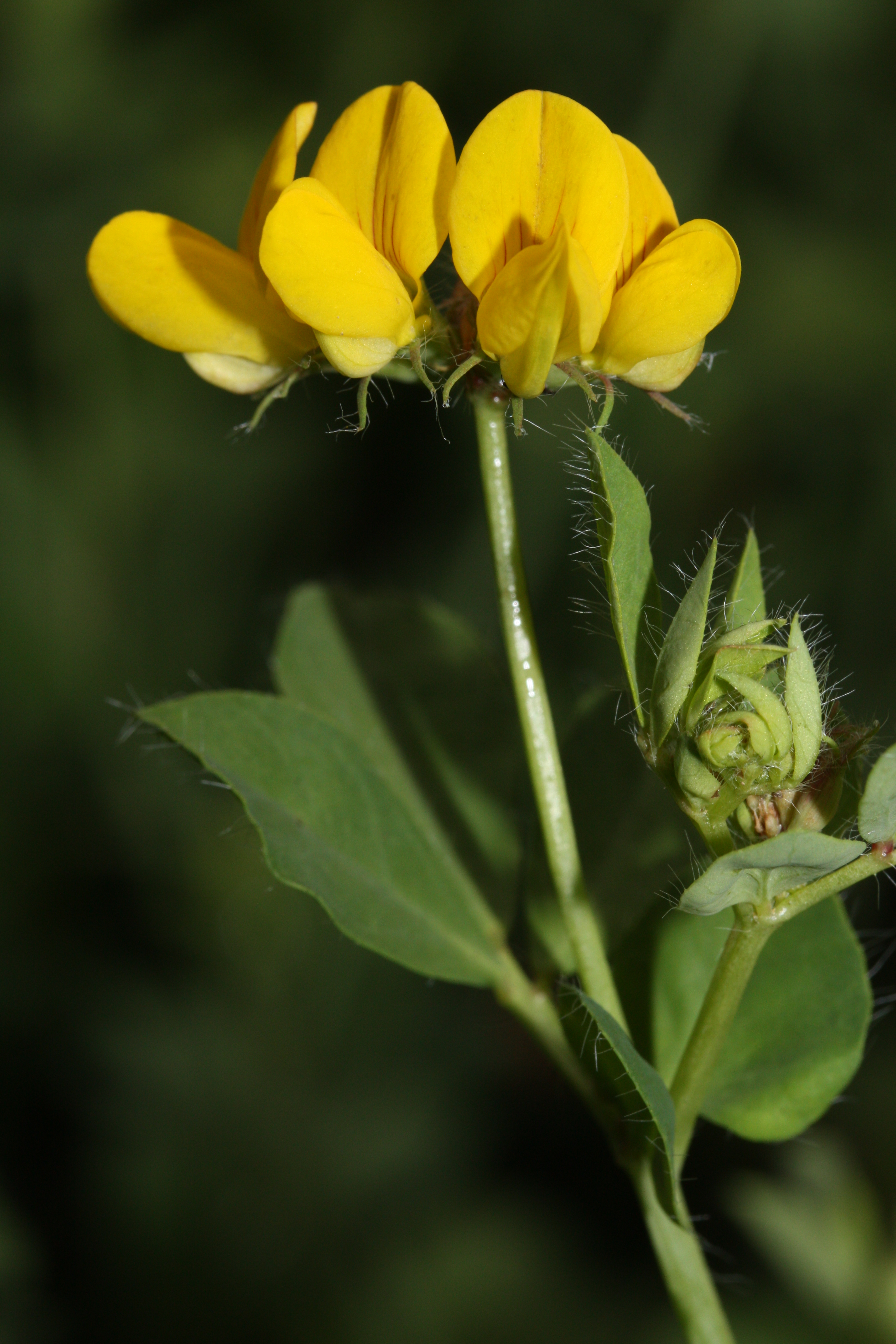 Birdfoot Deervetch, Garden Bird's-foot Trefoil